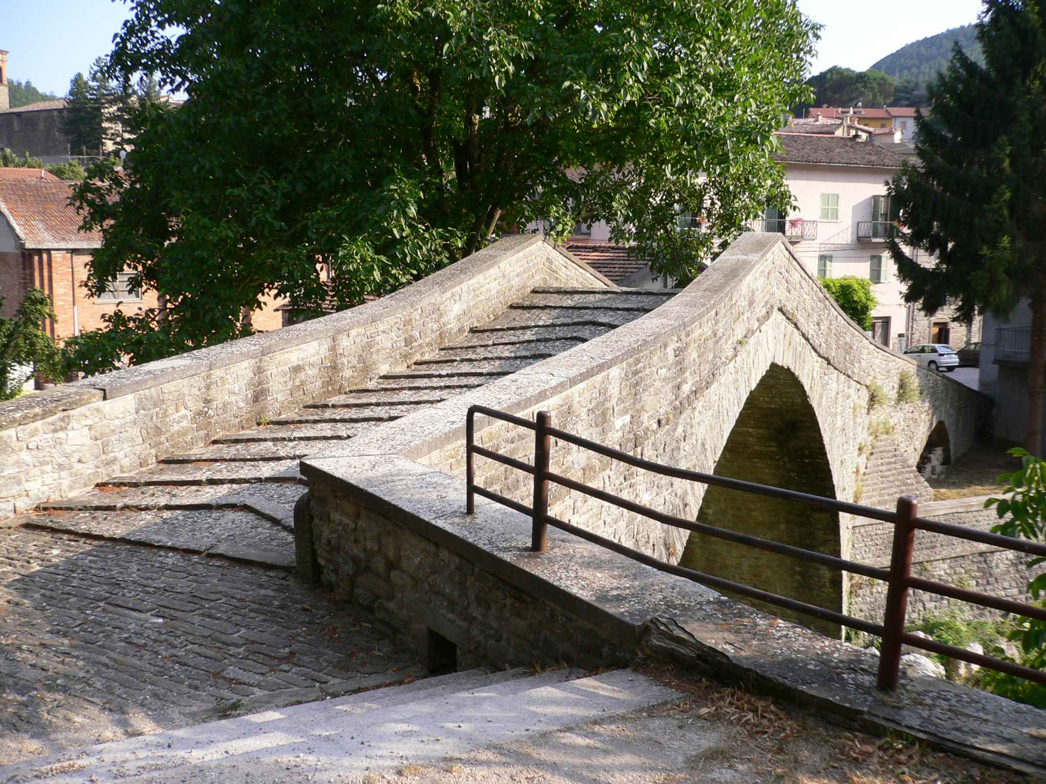 medieval bridge in Apecchio